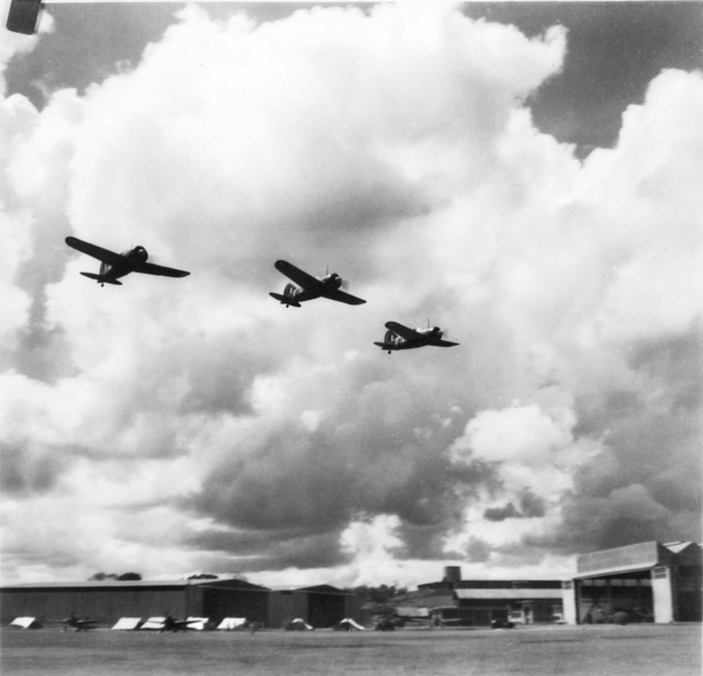 Singapore, Malaya. c.1941-11. Brewster Buffalo aircraft of No. 21 Squadron RAAF over a Malayan airfield